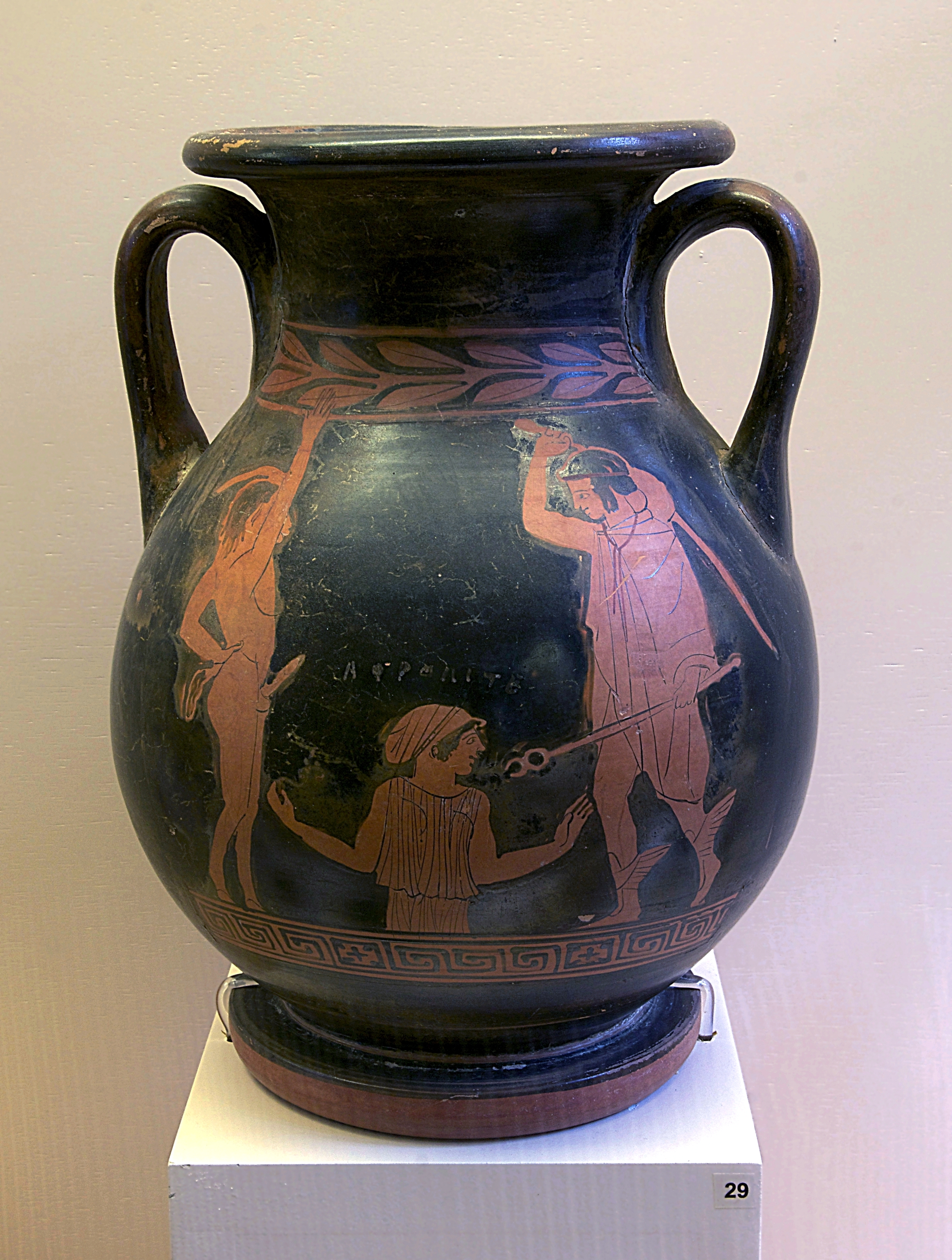 Birth of Aphrodite (the goddess is between Pan and Hermes, with her name ΑΦΡΟΔΙΤΕ over her head). Side A of an Attic red-figure Pelike. From Kameiros (Rhodes).